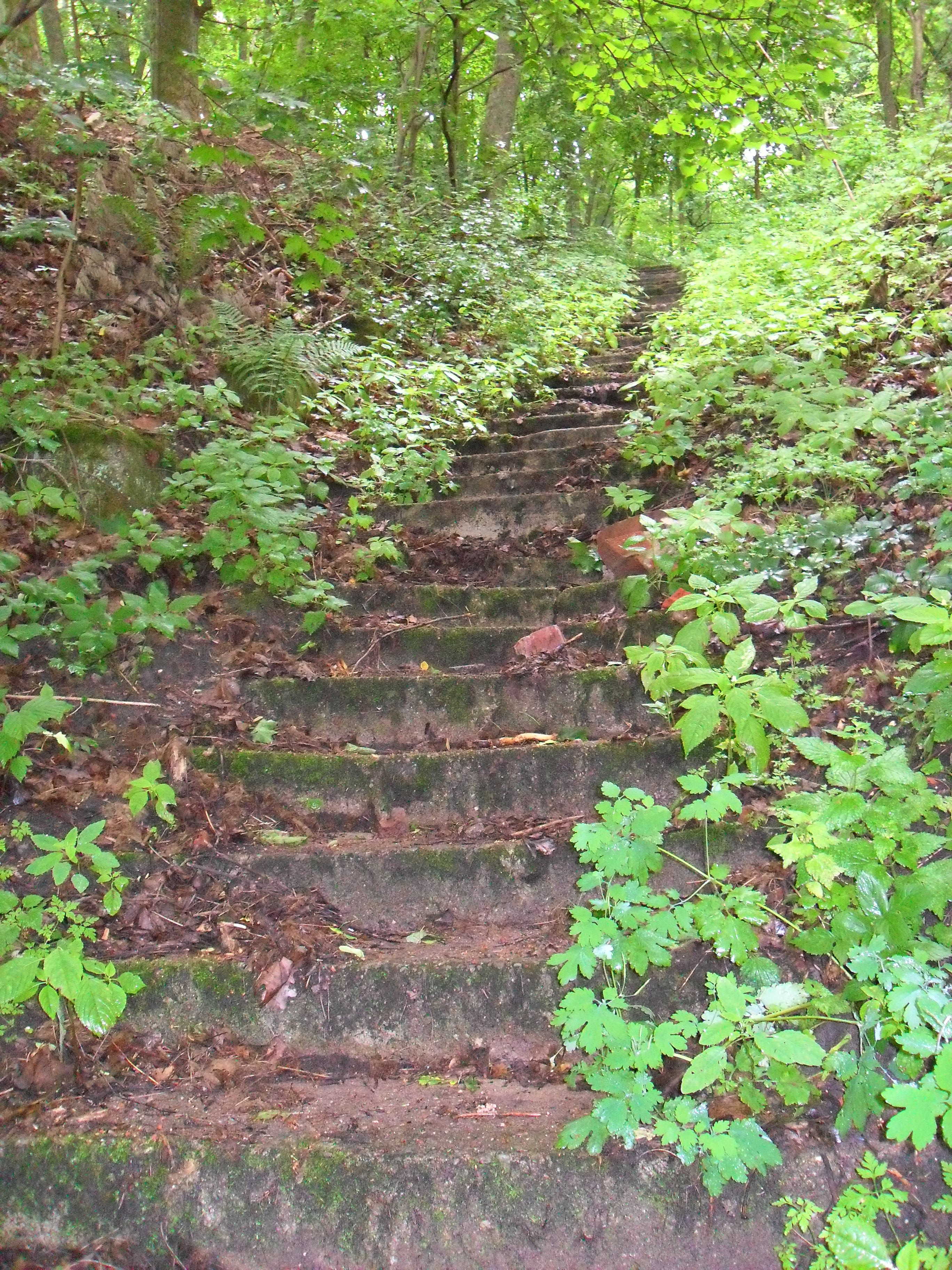 stair